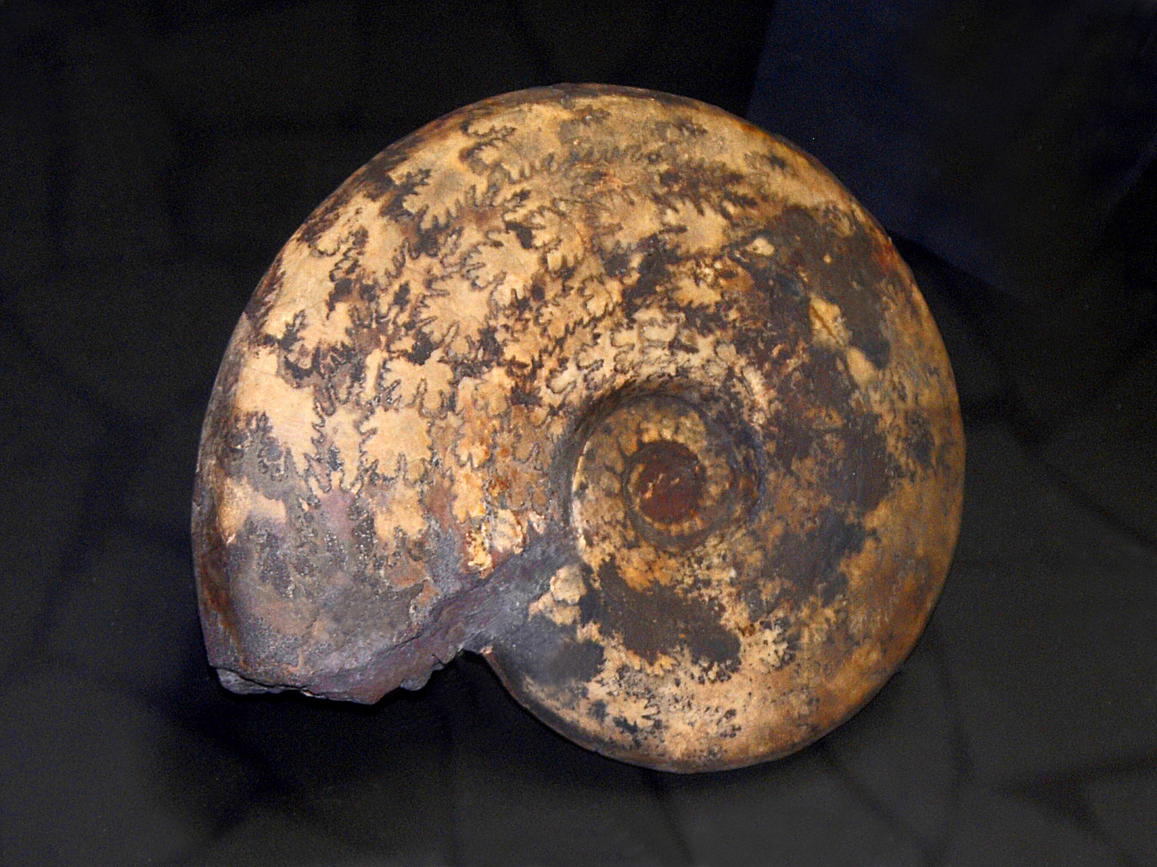 Fossil specimen of Ludwigia murchisonae from Mid Jurassic - Germany. On display at Museo di Scienze Naturali Enrico Caffi, Bergamo